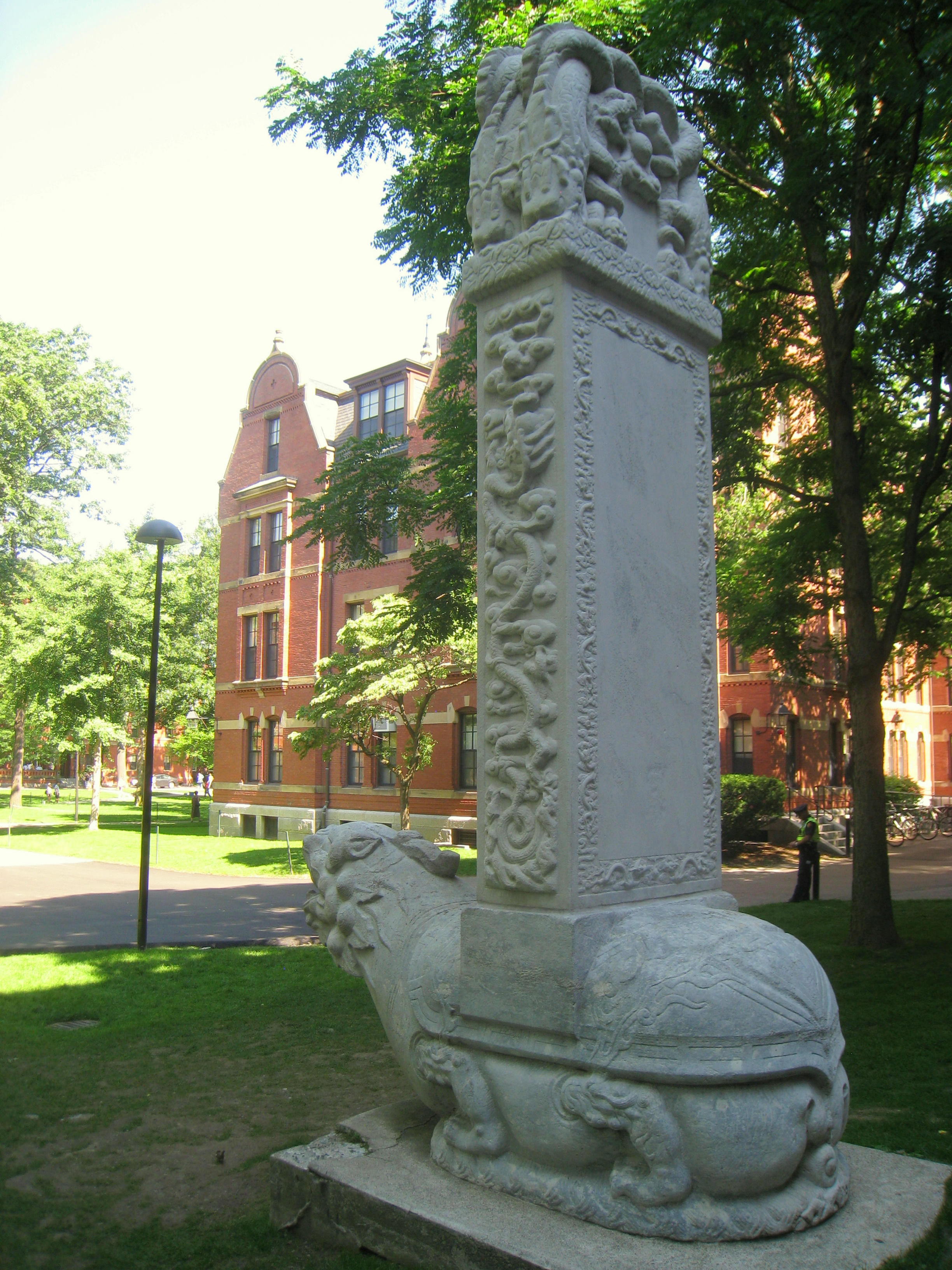 Bixi in Harvard University, Cambridge, Massachusetts, USA.